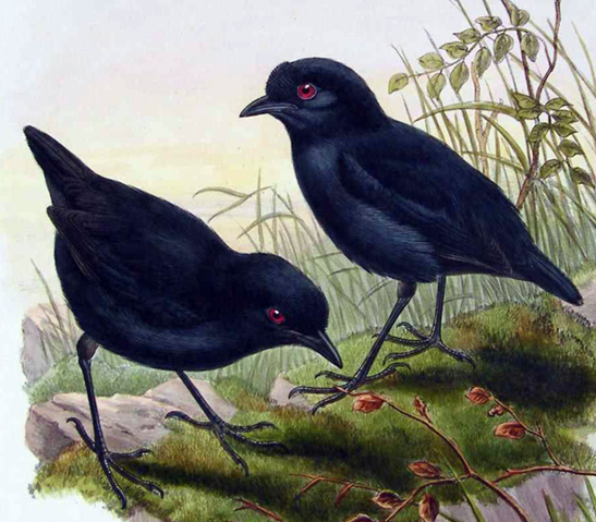 Lesser Melampitta (Melampitta lugubris) with status incertae sedis.